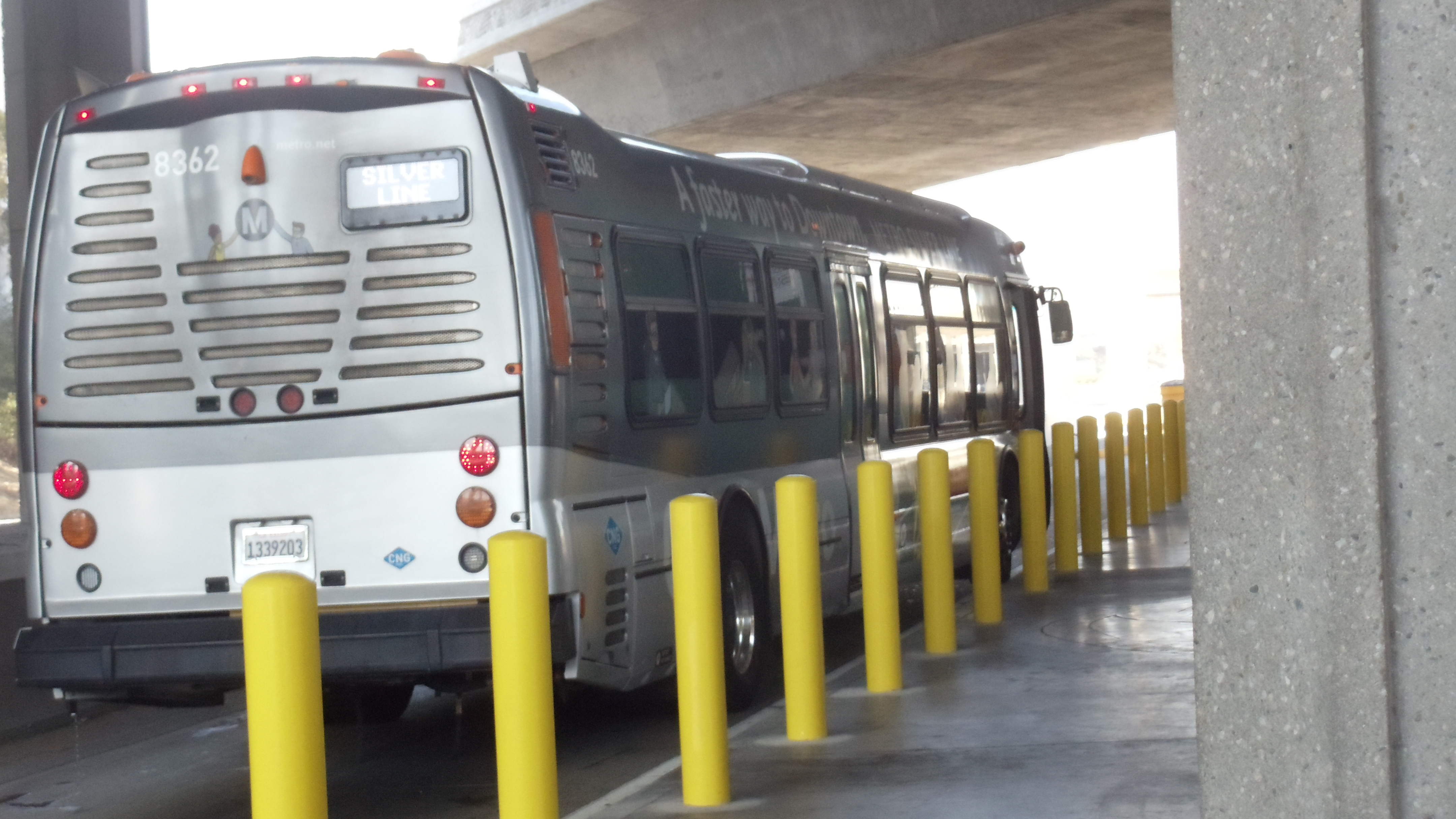 Metro Silver Line departing to Downtown Los Angeles. Bollards were recently installed.